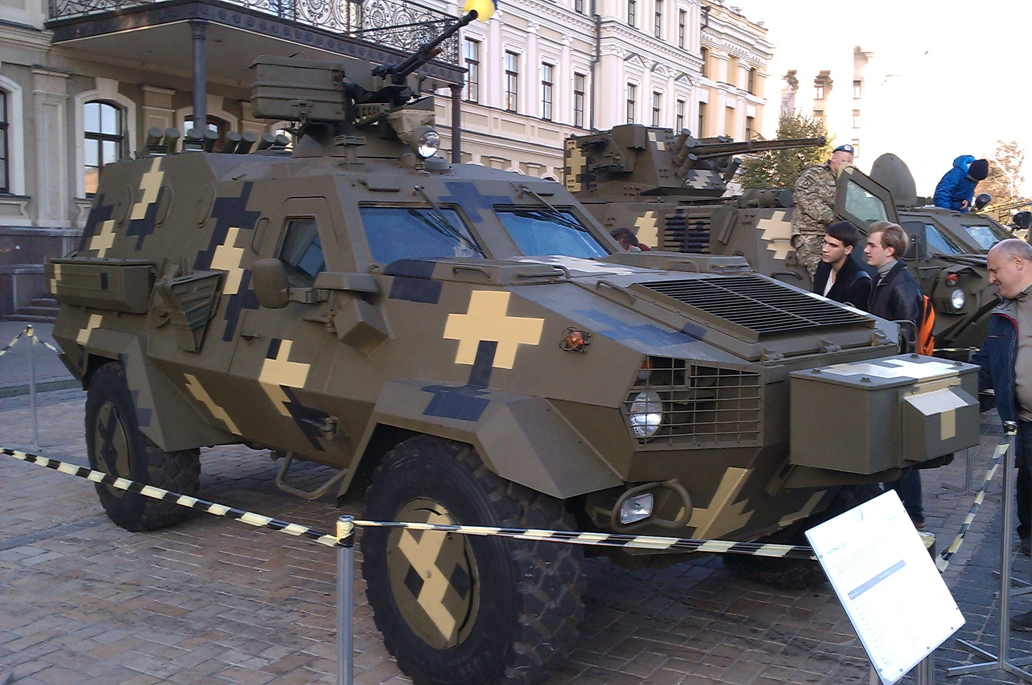 Dozor-B at the exhibition «The Power of unconquered» on the Day of the defender of Ukraine